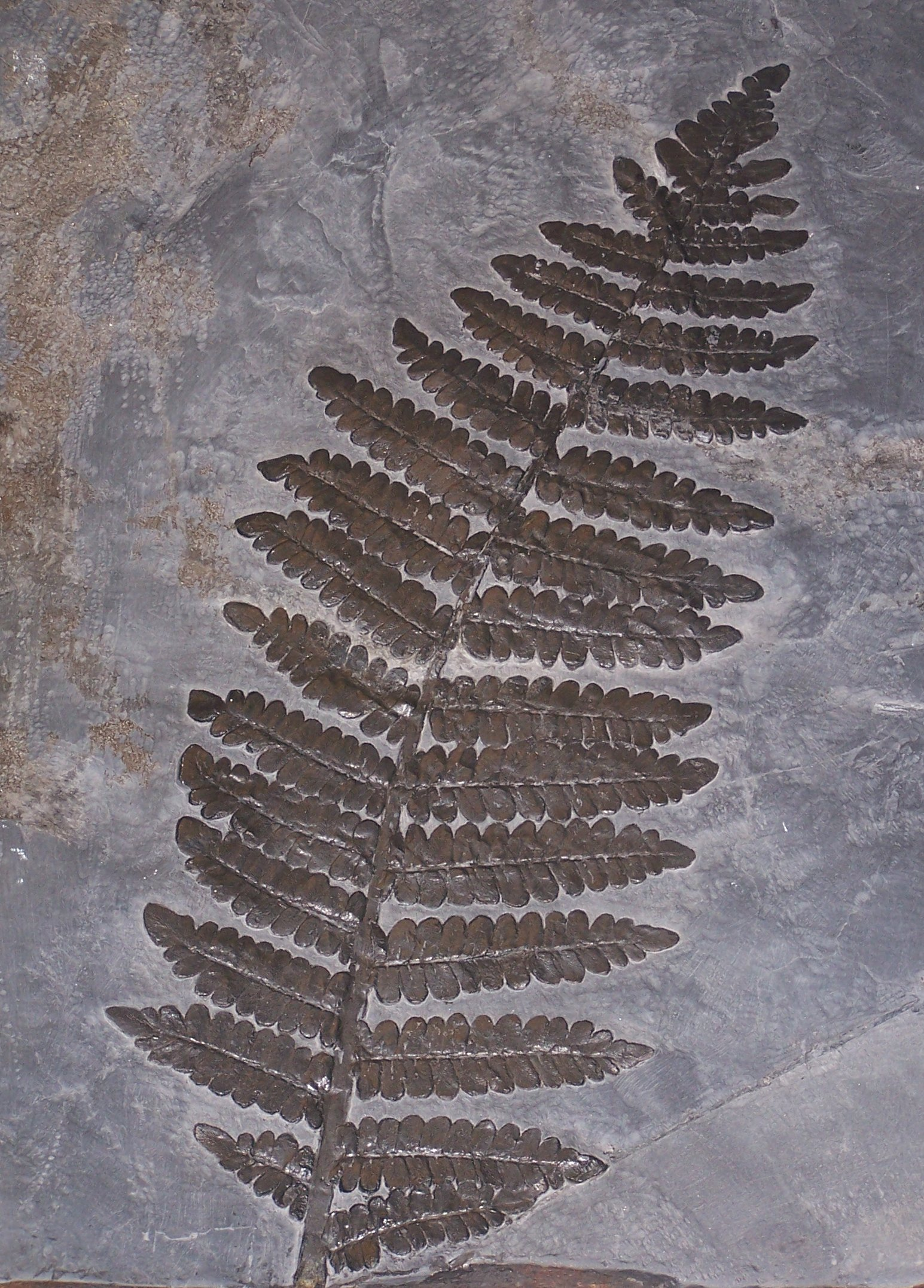 Crop of file in filename